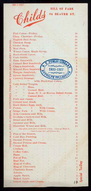 Front side of 1907 menu from Childs Restaurant. Courtesy [1]. Caption info from [2] follows: Image Title: DAILY MENU [held by] CHILDS RESTAURANT [at] "54 BEAVER ST. NEW YORK, NY" (REST;) Additional Name(s): Buttolph, Frank E., Miss, d. 1924 -- Collector Item Physical Description: CARD; 4X8.5 Notes: LOCATION OF ALL CHILDS RESTAURANTS AND MAIN OFFICE LISTED ON BACK Source: The Buttolph collection of menus / 1907 Location: Stephen A. Schwarzman Building / Rare Books Division Catalog Call Number: 1907-0023 Digital ID: 473934 Record ID: 279072 Digital Item Published: 3-31-2004; updated 3-25-2011